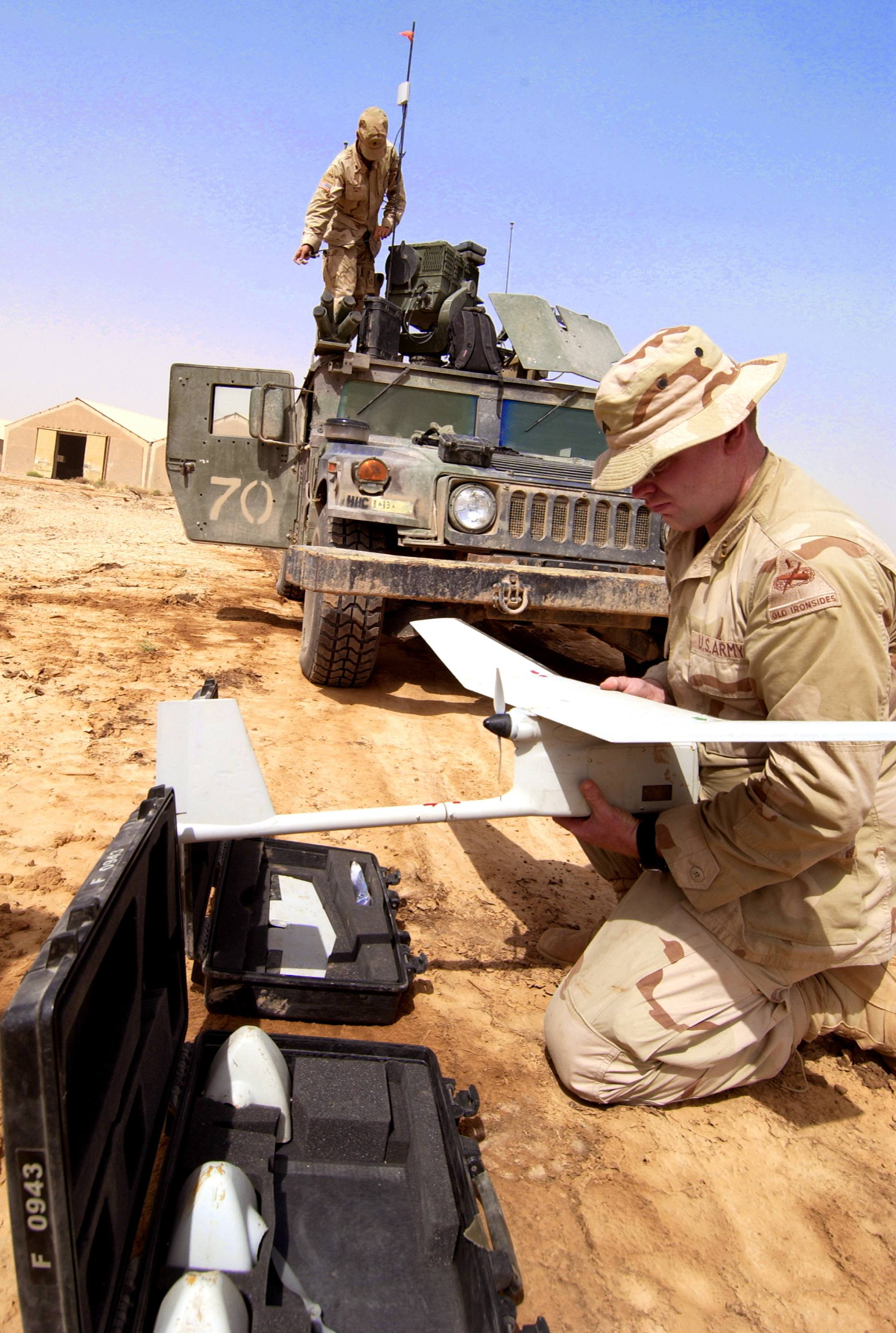 Army Corporal Jerry Rogers assembles a RQ-11 Raven unmanned aerial vehicle in order to conduct aerial tactical reconnaissance of insurgents in Taji, The Raven has video cameras located in the nose cone and can relay live video back to the operator in real-time. Rogers is attached to the Scout Platoon, 1st Battalion, 13th Armor Regiment, 3rd Brigade, 1st Armored Division.